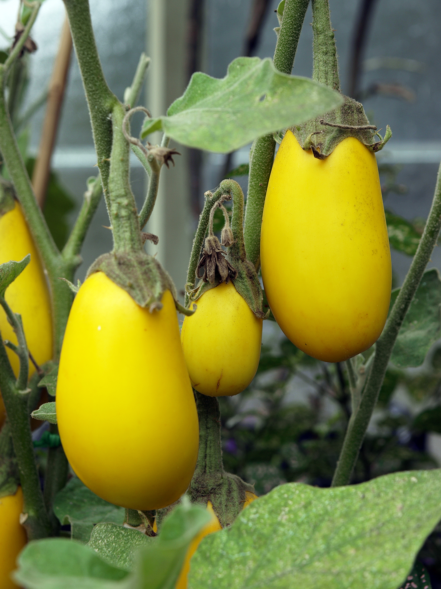 Yellow Eggplant, Wintergarden, Auckland Domain, Auckland, New Zealand